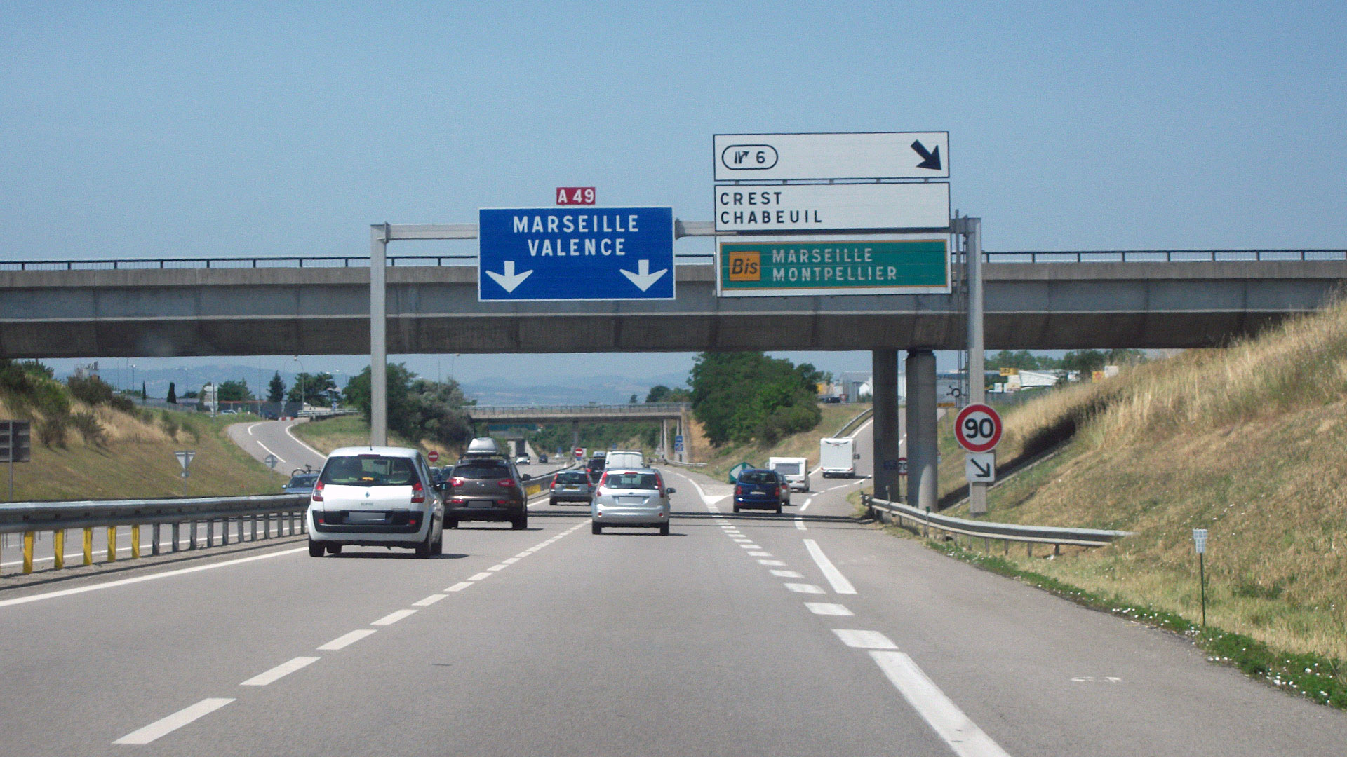 A49 autoroute towards Valence. In this time of high traffic on the A7 autoroute, there is also a BIS route towards Marseille and Montpellier.